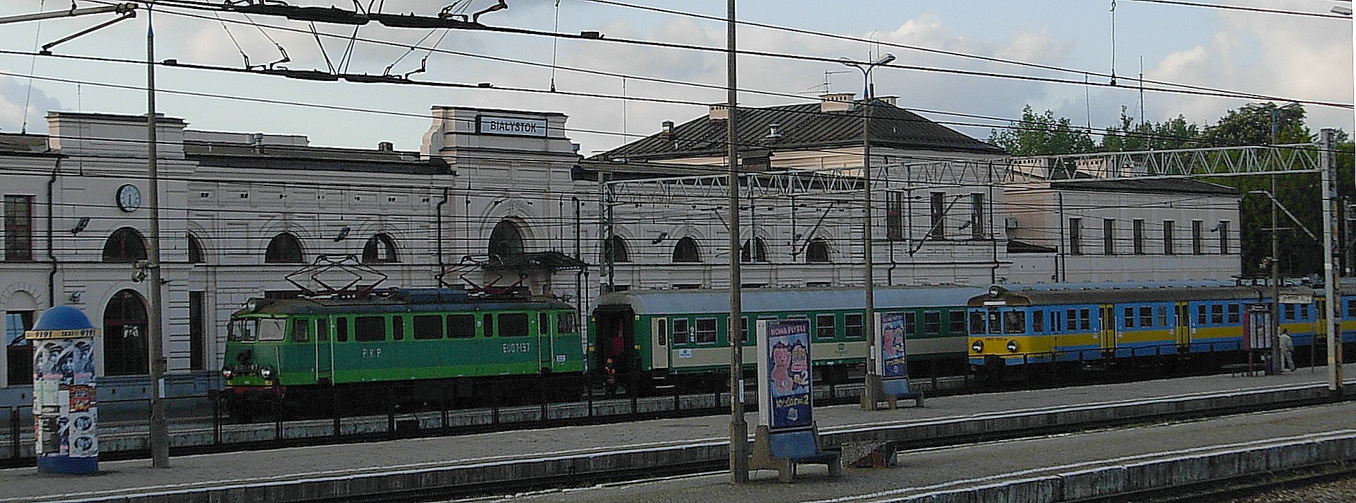 Main railway station in Białystok